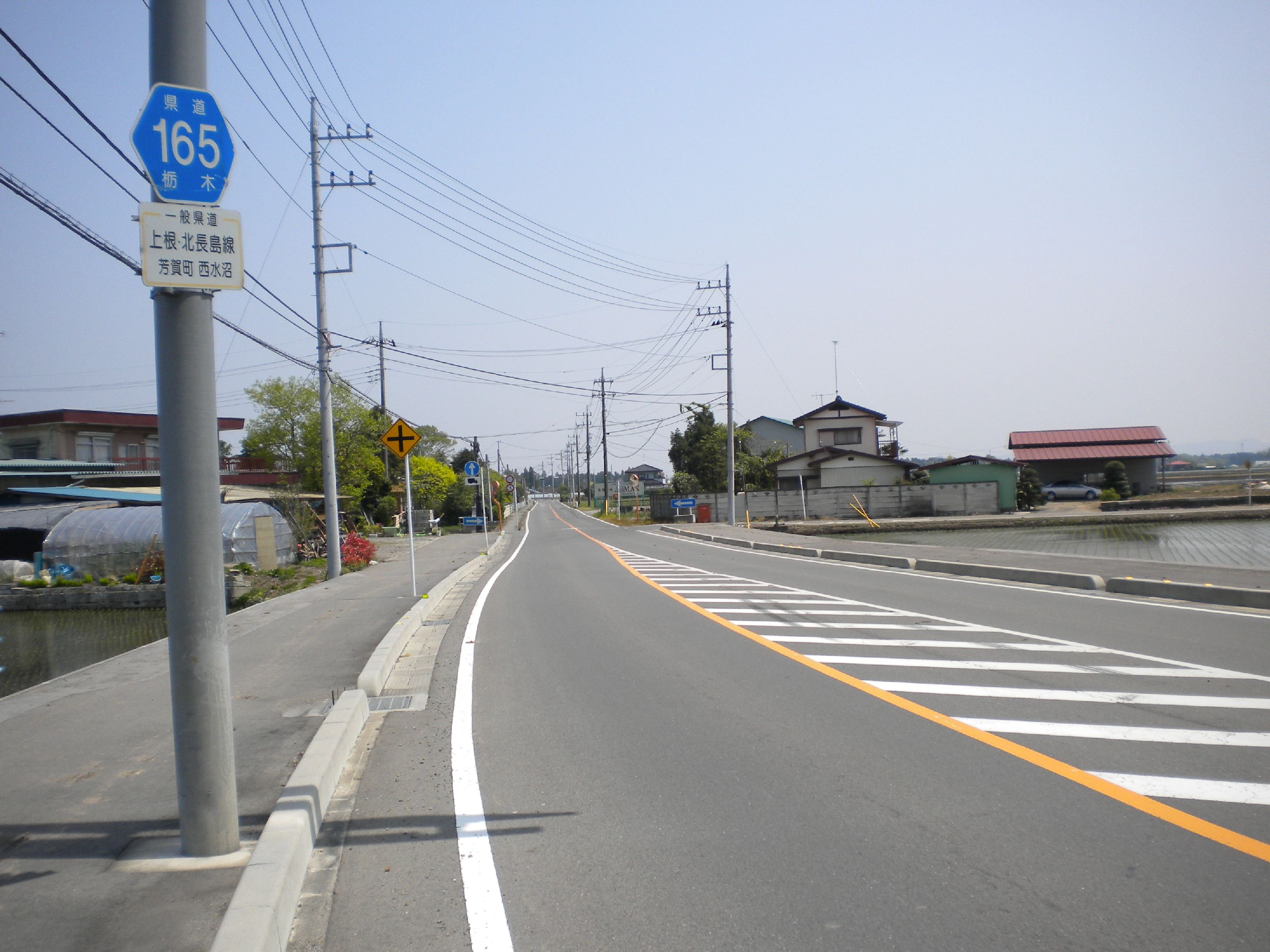 Tochigi prefectural road No.165 on Haga town